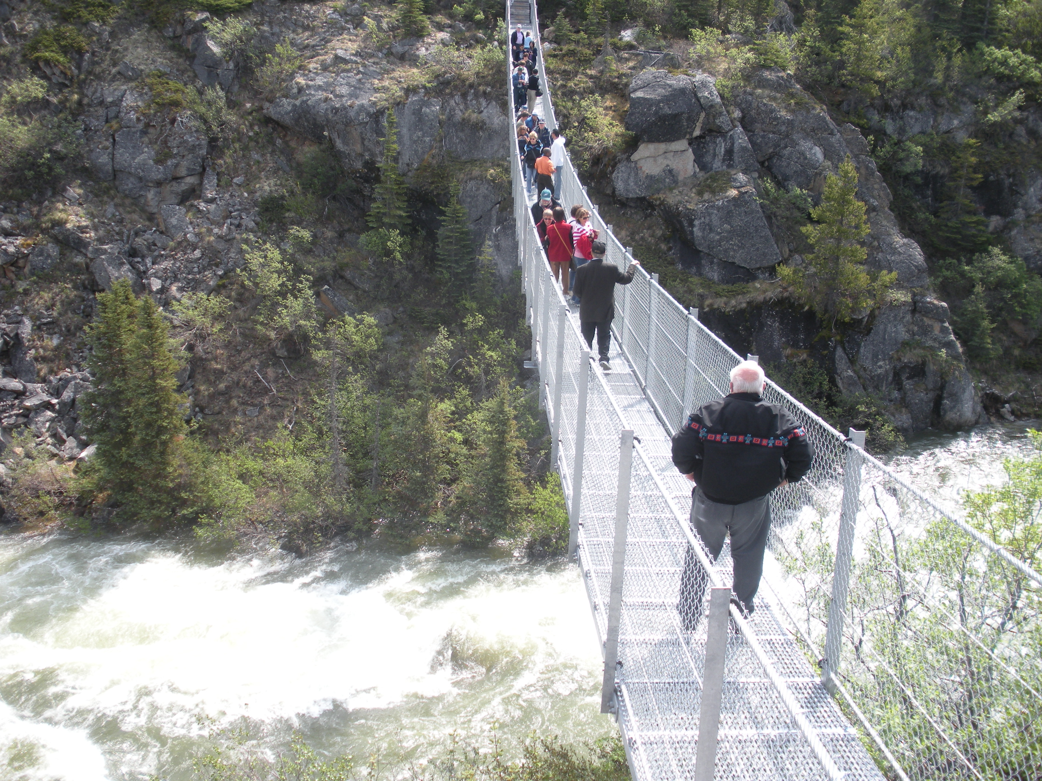 Tourists crossing the bridge in the summer